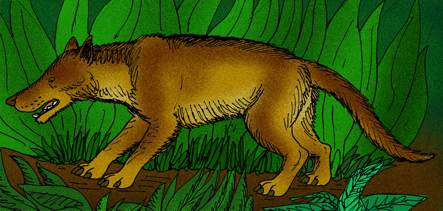 Reconstruction of the Chinese mesonychid Jiangxia chaotoensis, of the Late Paleocene. (C) Stanton F. Fink